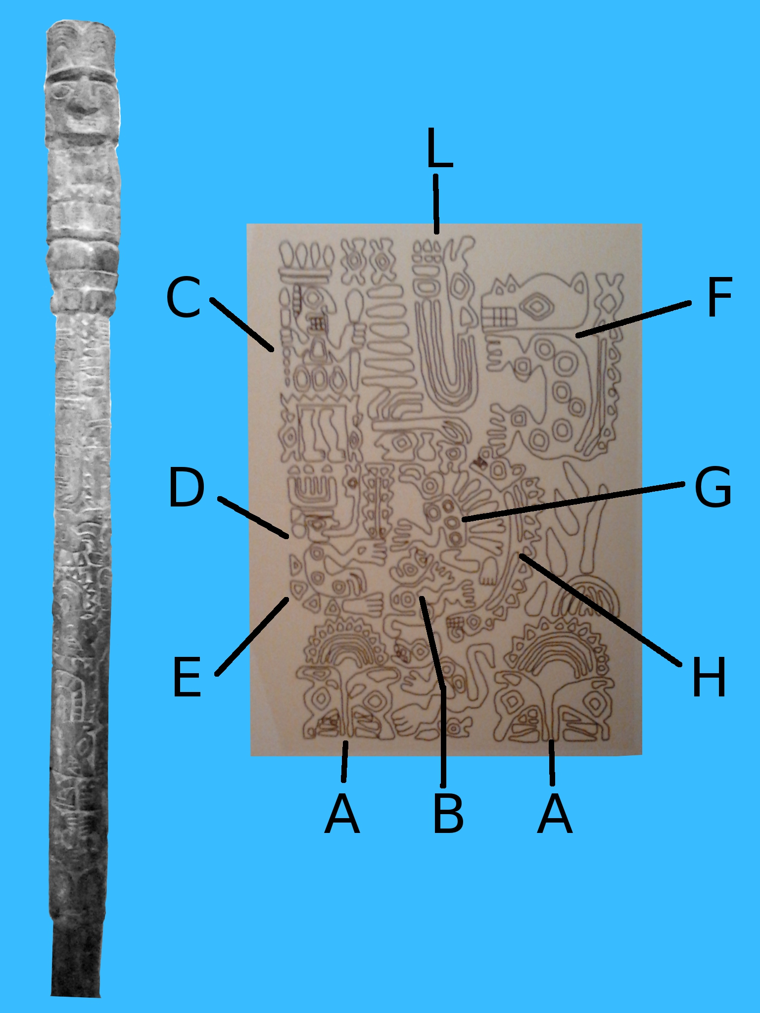 Pachacamac Idol: A and H) Two heads snakes; B, E and F) Felines; C and D) Anthropomorphic character; G) Bird; L) One head snake